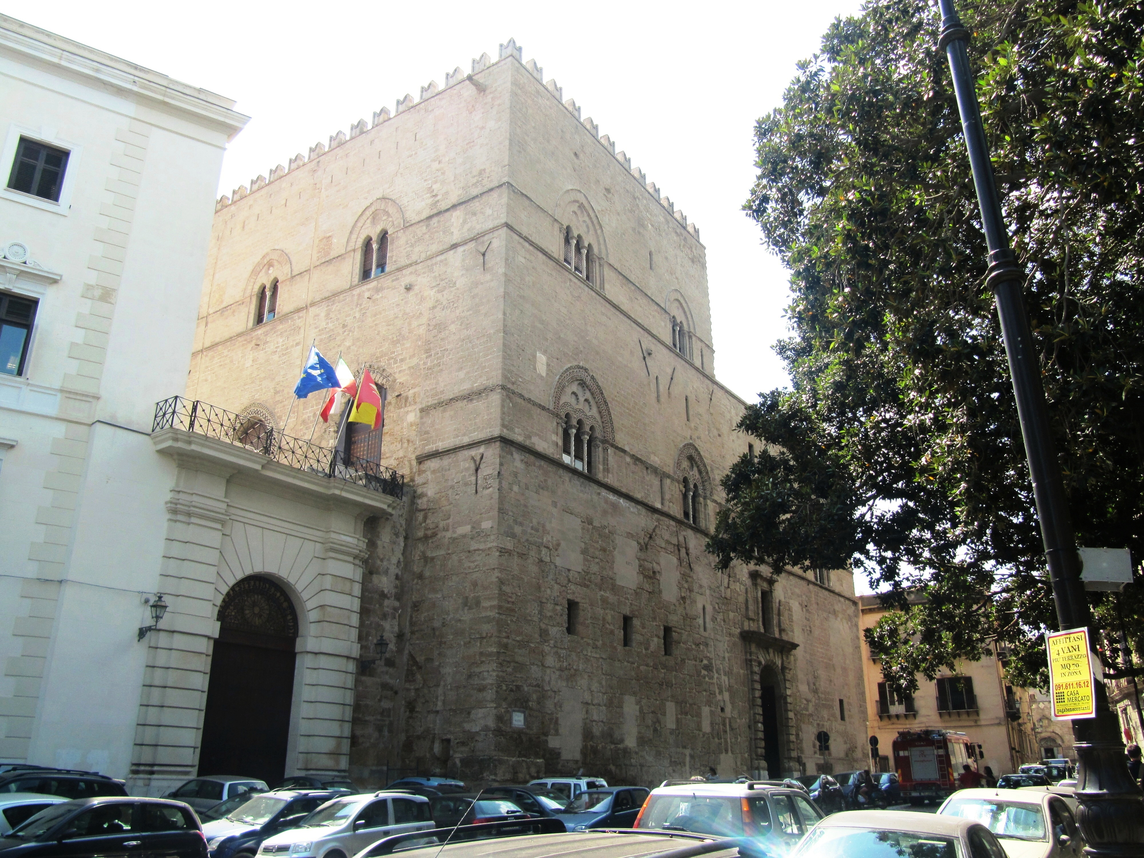 Palermo, Sicily, Italy. Chiaramonte-Steri Palace.